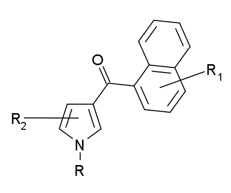 General structure of naphthoylpyrroles